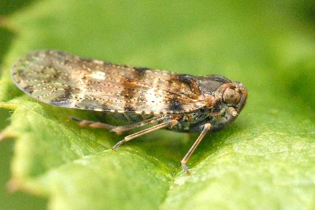 Cixius nervosus from Commanster, Belgian High Ardennes .